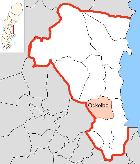 Ockelbo Municipality in Gävleborg County Designd by me, based on Image:Gävleborg County.png